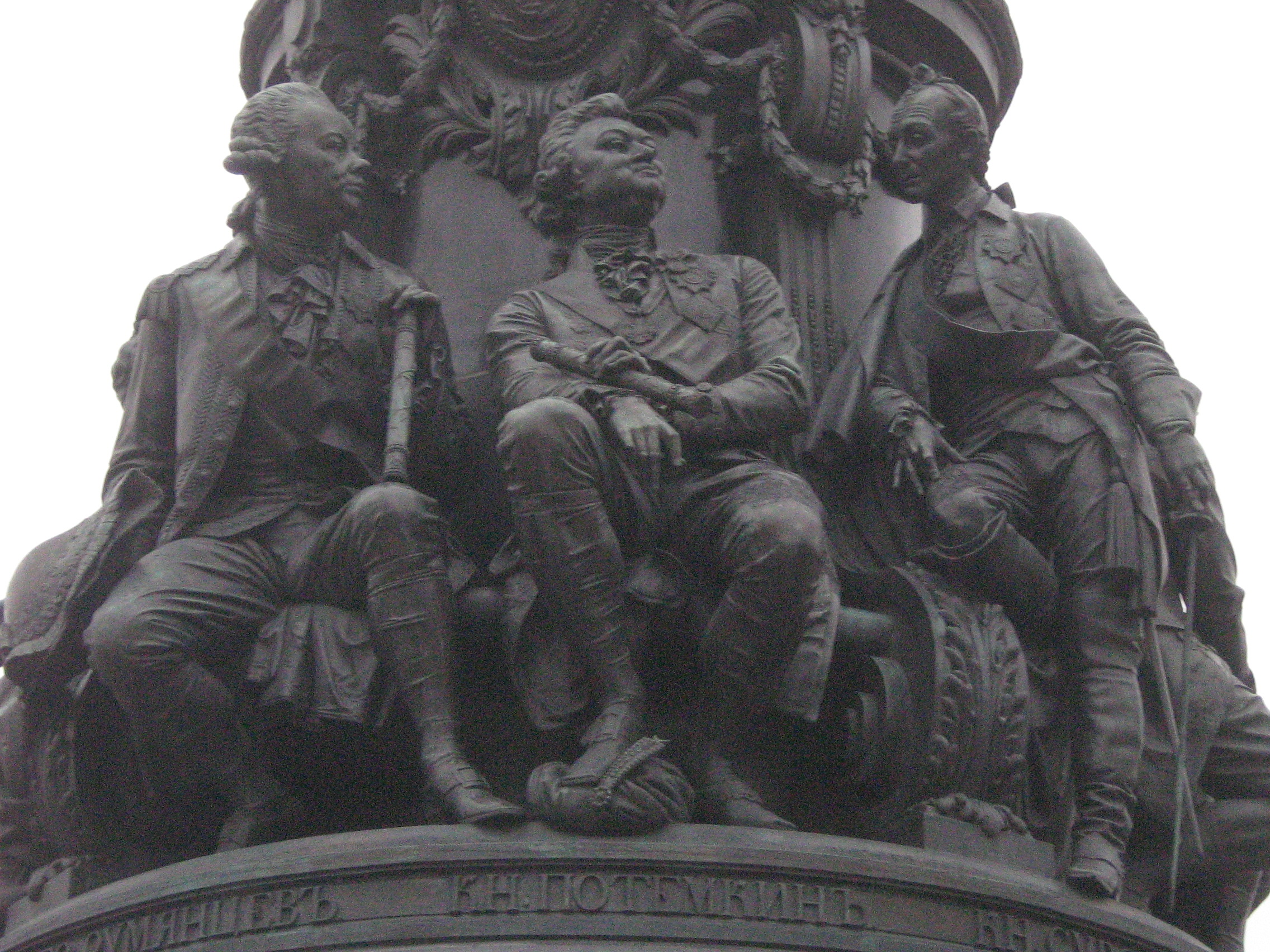 Saint Petersburg (Russia), Nevsky Avenue. Monument to Catherine II